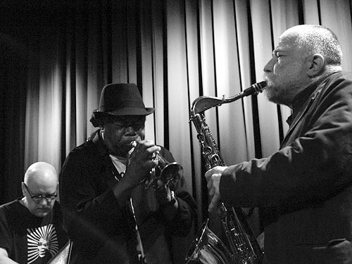 Peter Brötzmann, Joe McPhee and Kent Kessler performing in Aarhus, Denmark (Peter Brötzmann Chicago Tentet 2009)